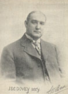 J S C Dovey